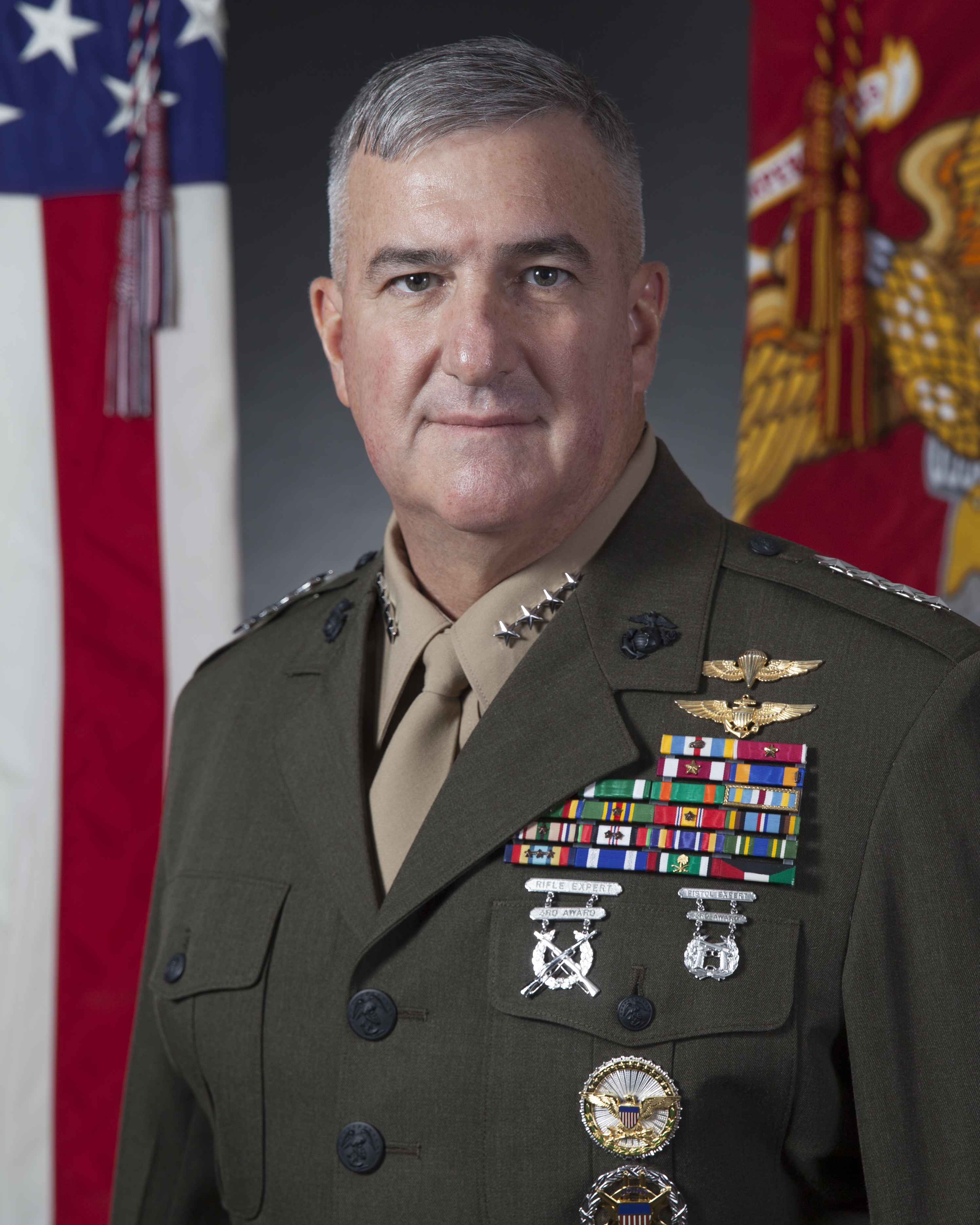 ACMC Walters